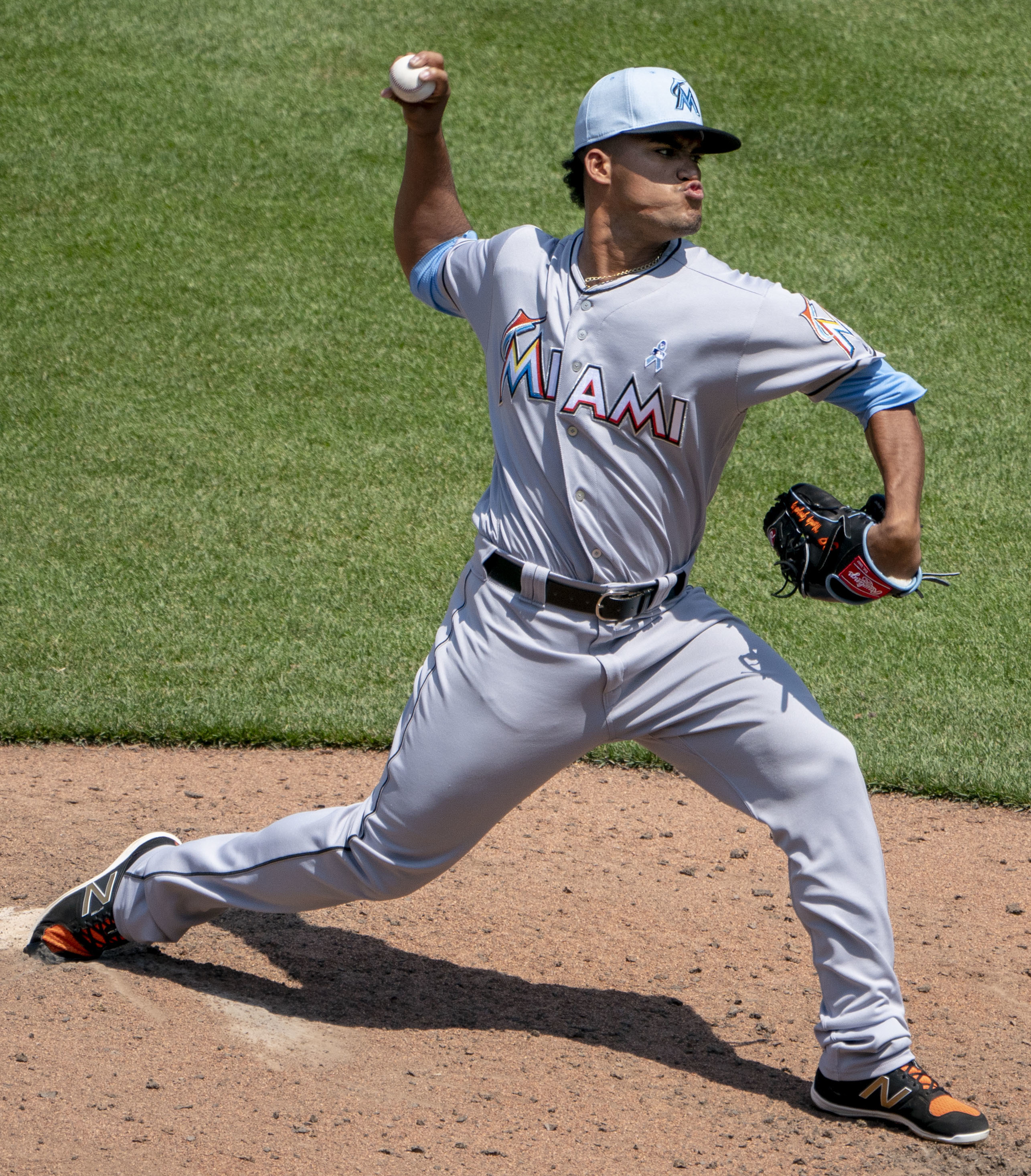 Marlins at Orioles 6/17/18